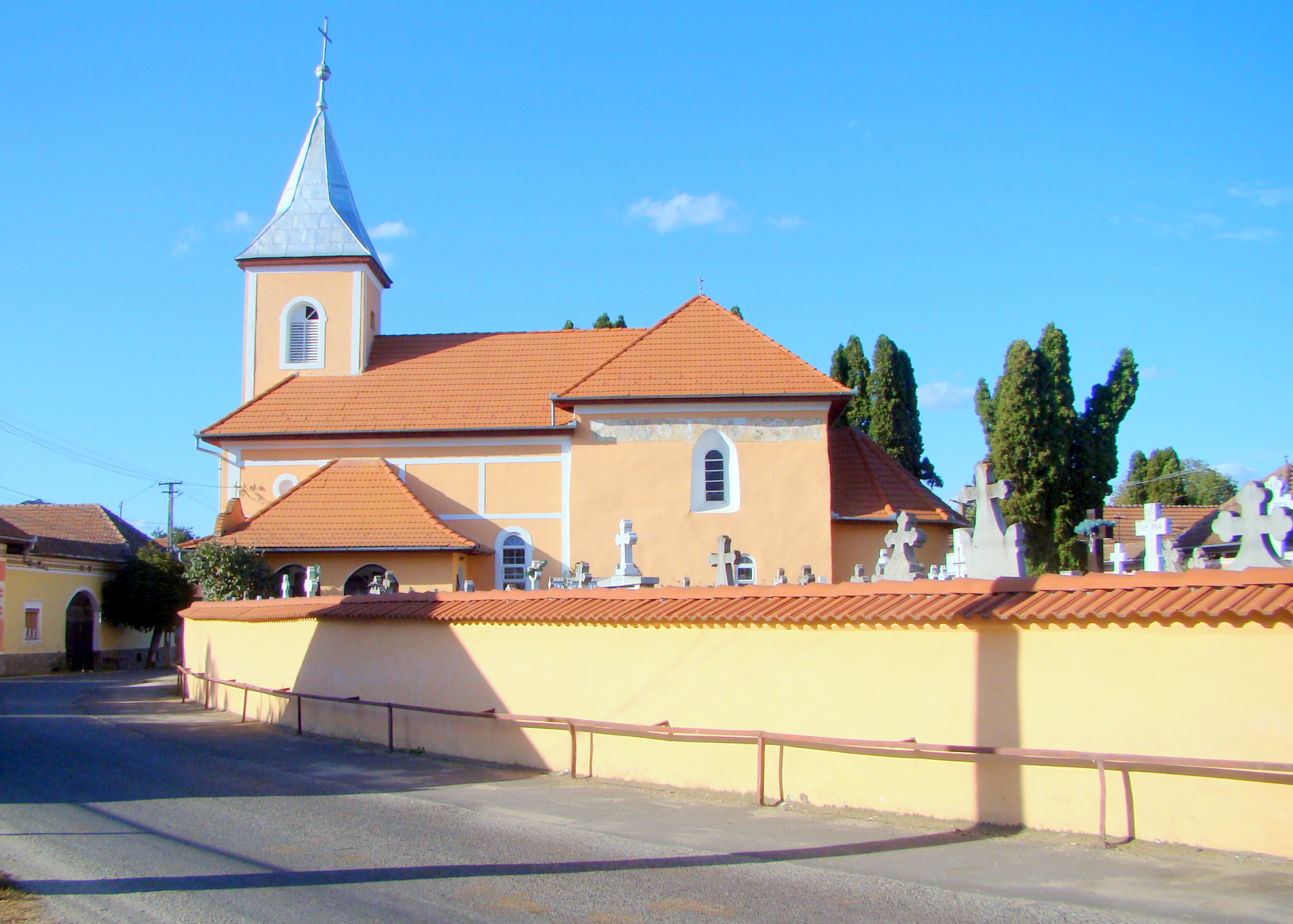 Church of the Dormition in Voivodenii Mari, Brașov County, Romania